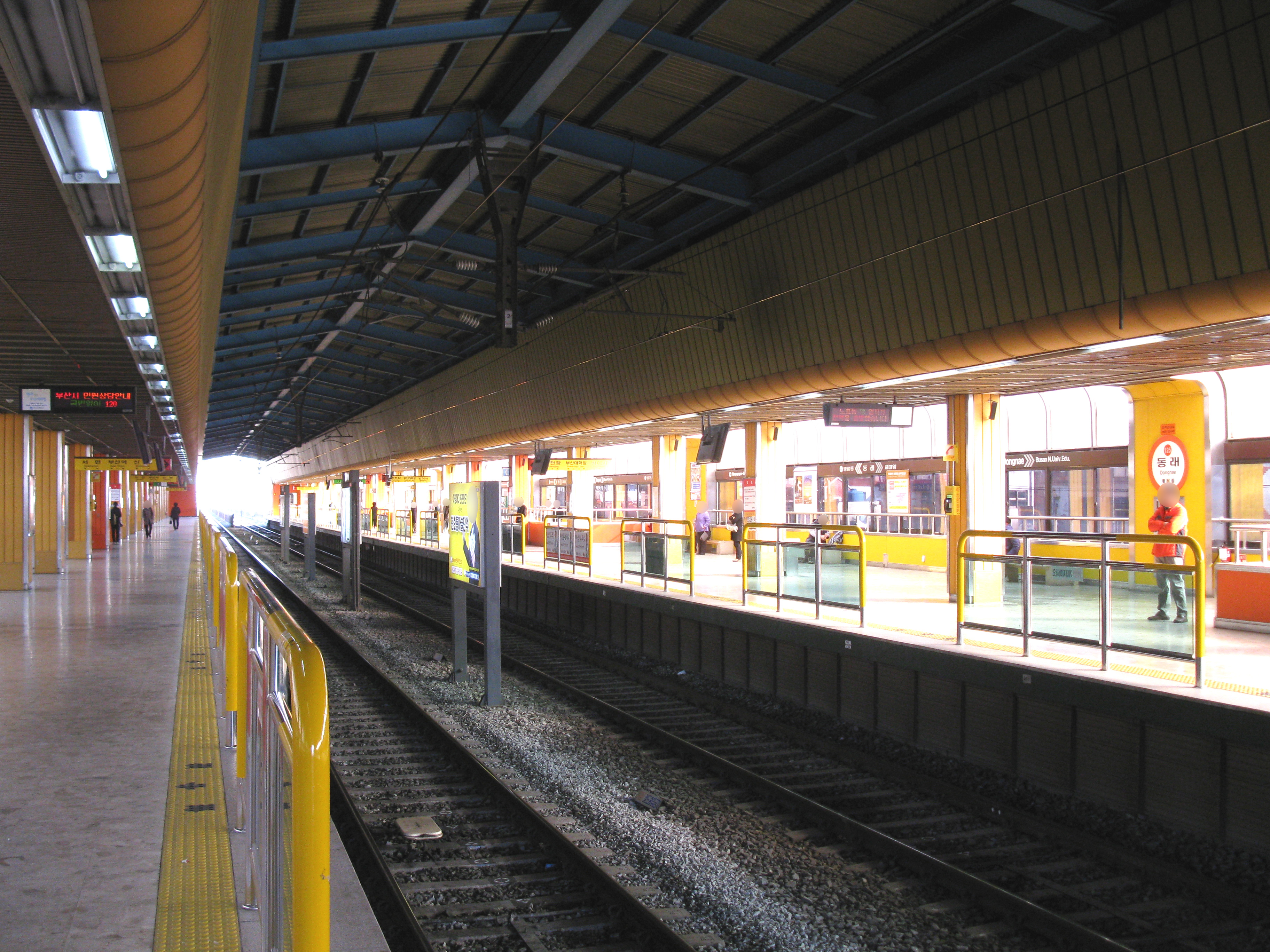 The platforms at Dongnae Station on the Busan Subway Line 1